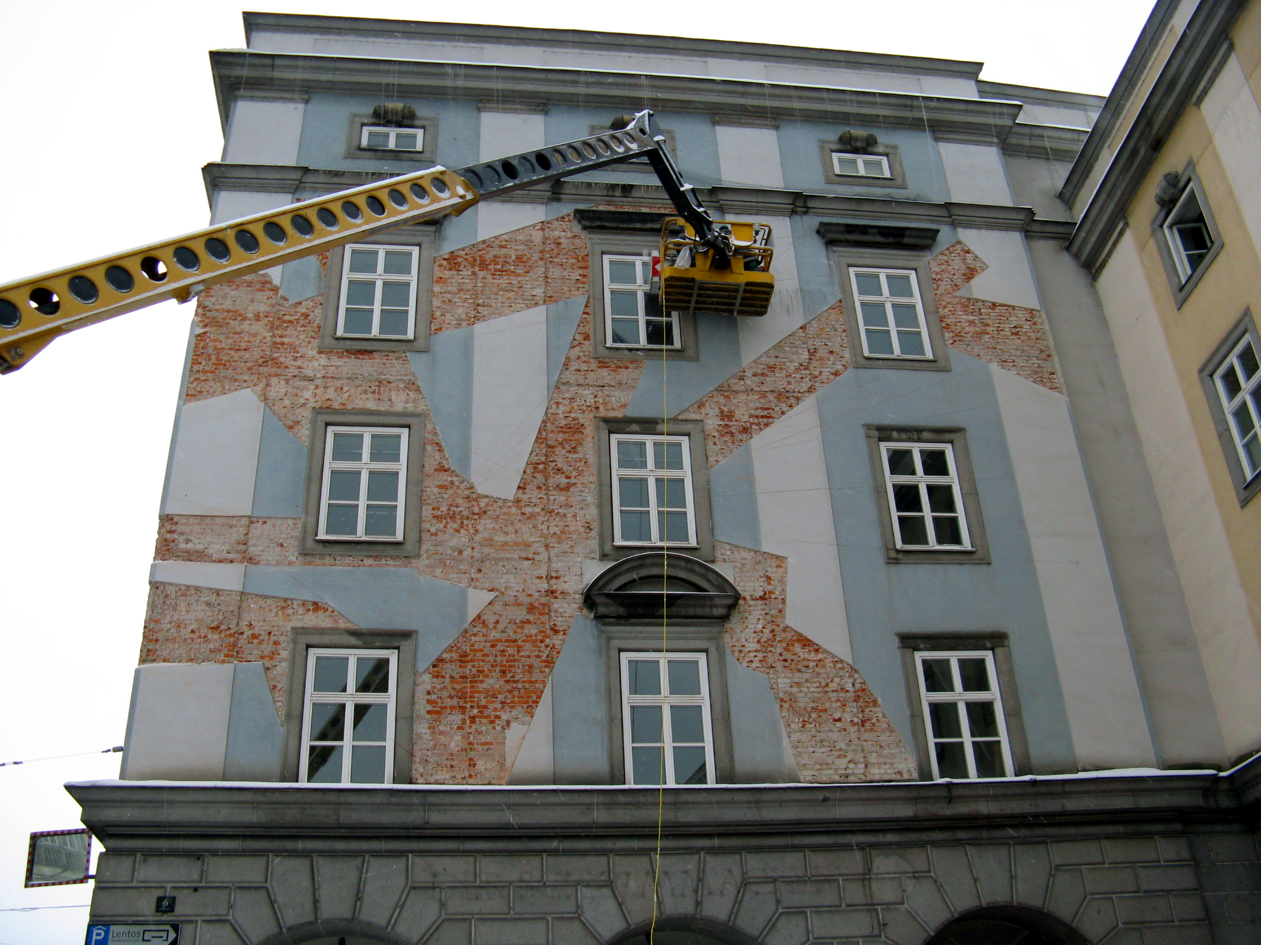 A Projekt of "Linz 09-European Capital of Culture". The walls of the "Brückenkopfgebäude" at the main square of Linz, which has been buildt during the 3rd Reich are made free. The "Brückenkopfgebäude" were parts of Adolf Hitlers Plans to Rebuild Linz.